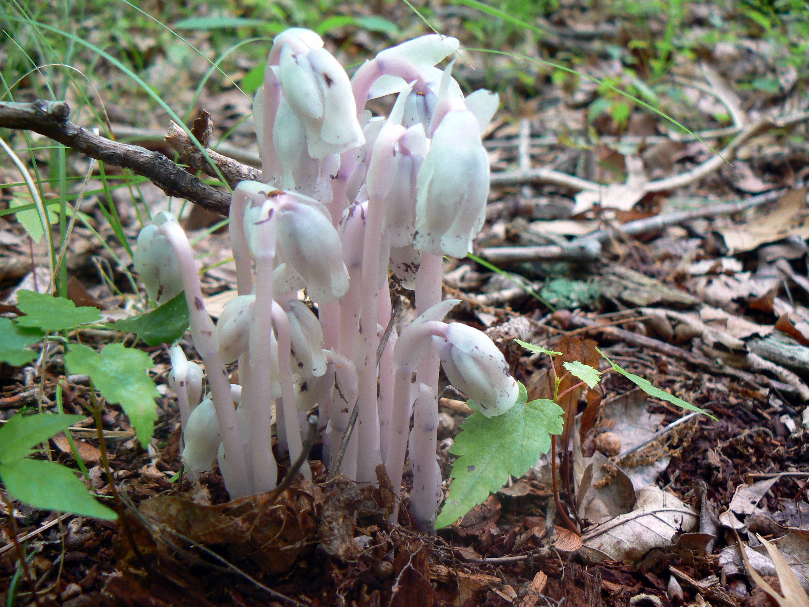 Group of Dutchman's Pipe (Monotropa uniflora).